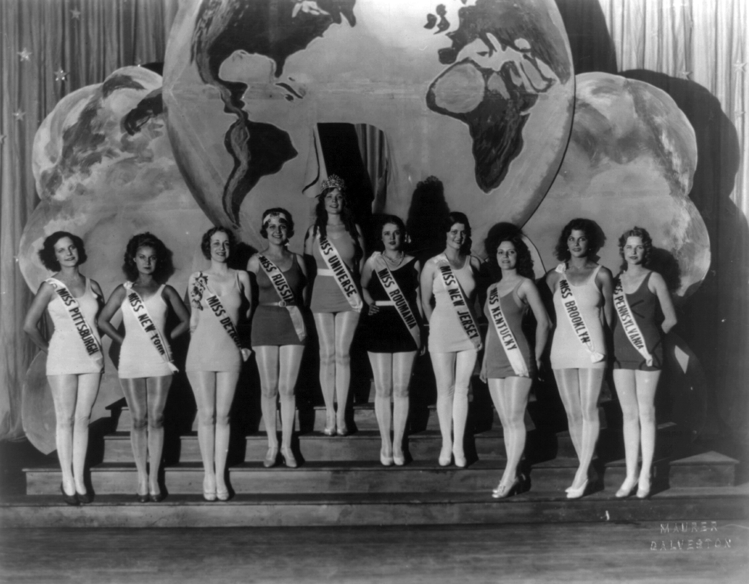 "Photograph shows Miss Universe, center wearing crown, standing on steps with nine other beauty contestants, (Miss Pittsburgh, Miss New York, Miss Detroit, Miss Russia, Miss Roumania, Miss New Jersey, Miss Kentucky, Miss Brooklyn, and Miss Pennsylvania); large cut-out of the world and clouds in background." The photograph was taken at the 1930 International Pageant of Pulchritude in Galveston.